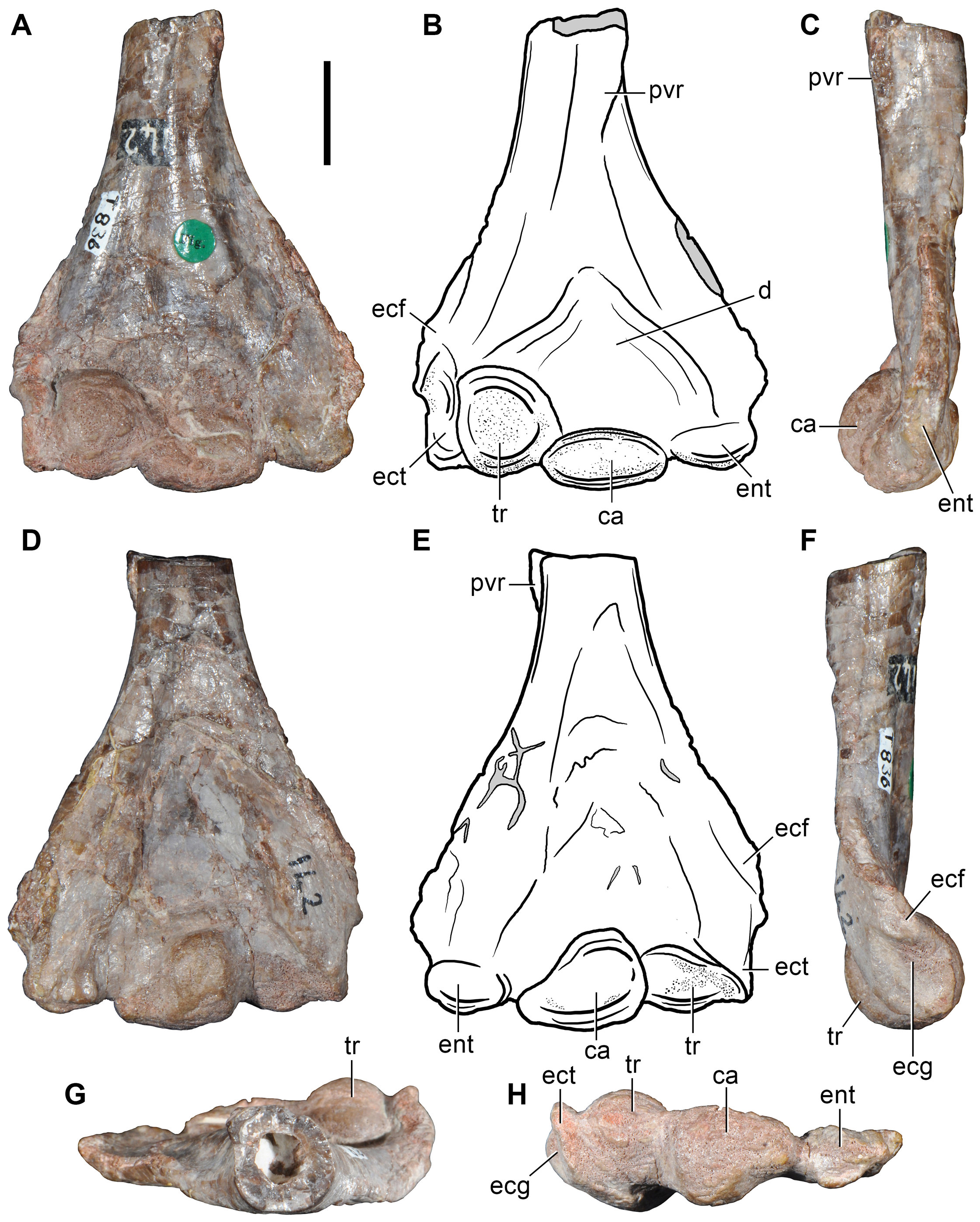 Aenigmastropheus parringtoni, an early archosauromorph from the middle Late Permian of Tanzania. Distal half of the right humerus (UMZC T836, holotype) in ventral (A, B), posterior (C), dorsal (D, E), anterior (F), proximal (G) and distal (H) views. Abbreviations: ca, capitellum (radial condyle); d, depression; ecf, ectepicondylar flange; ecg, ectepicondylar groove; ect, ectepicondyle; ent, entepicondyle; pvr, posteroventral ridge; tr, trochlea (ulnar condyle). Scale bar equals 1 cm.